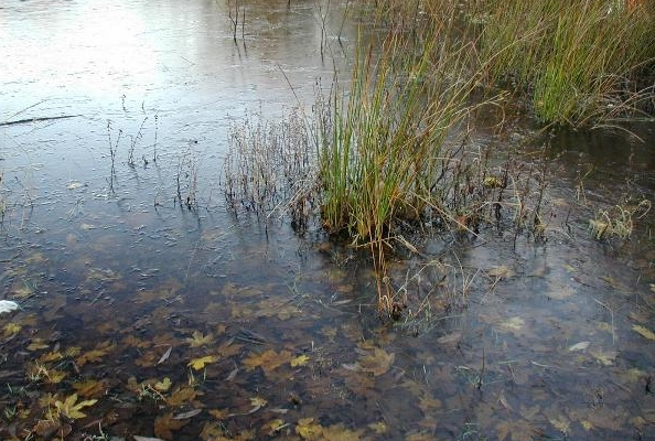 The first ice is covering a small village pond at Beder, Jutland a suburb of Aarhus.